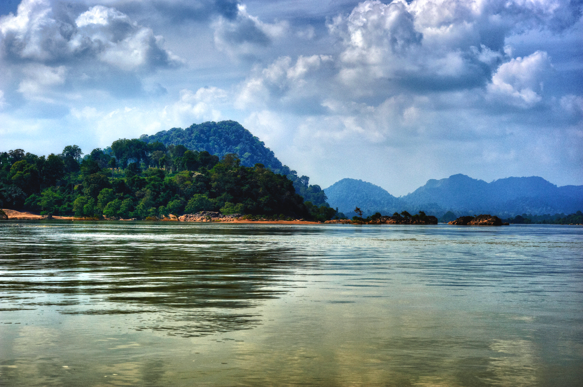 In the region of 4,000 islands are found freshwater dolphins. Unfortunately I saw them, but the photograph could not.